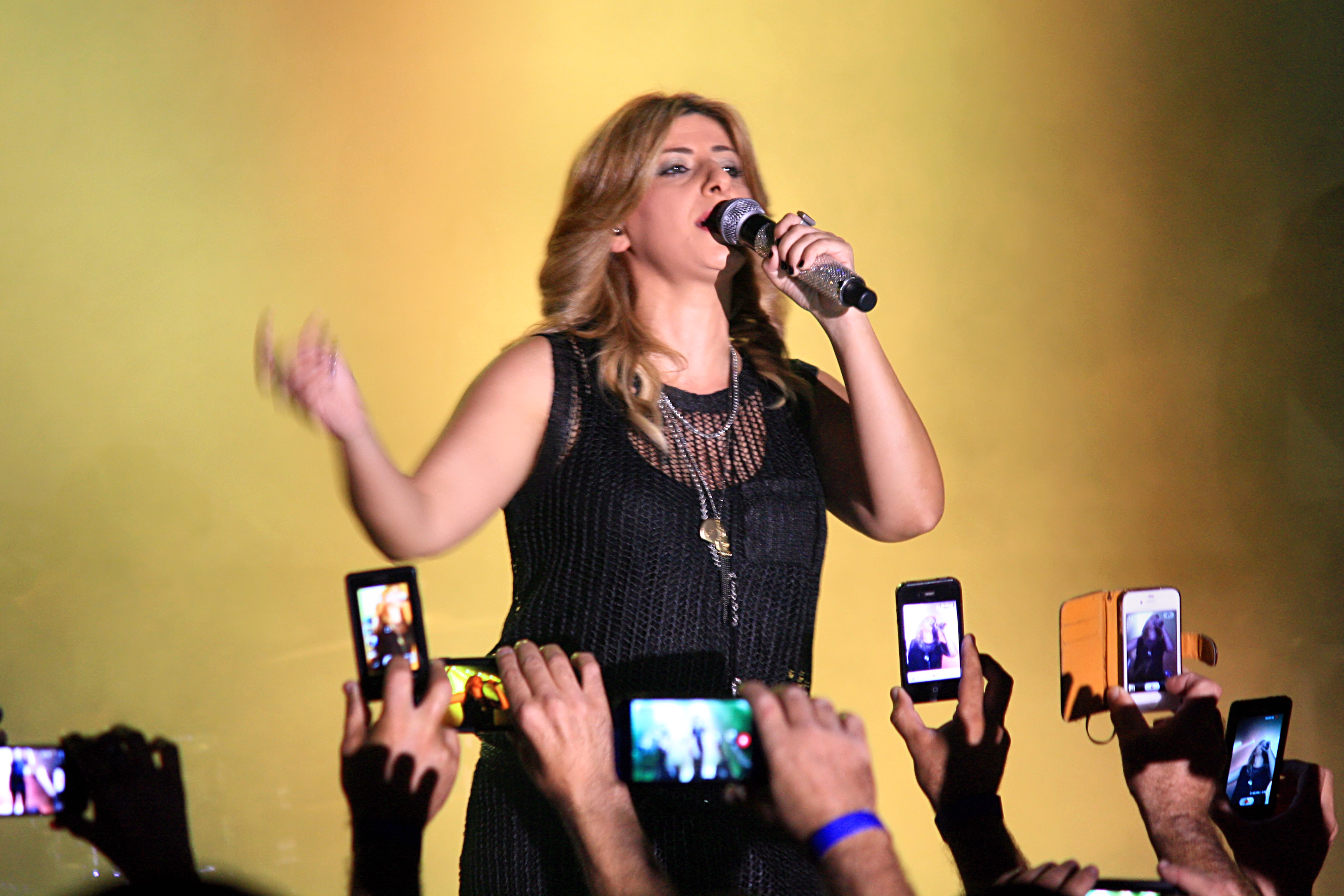 Sarit Hadad.